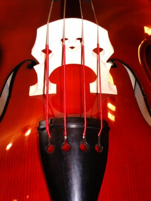 This is the bridge of my double bass. It is a Gunter (made in Rumany). It is an affordable instrument.